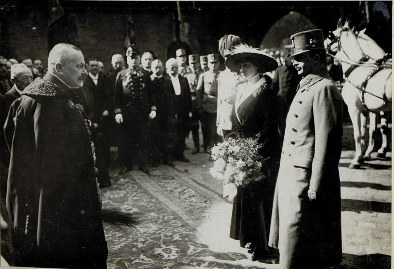 Karl I of Austria in Kraków